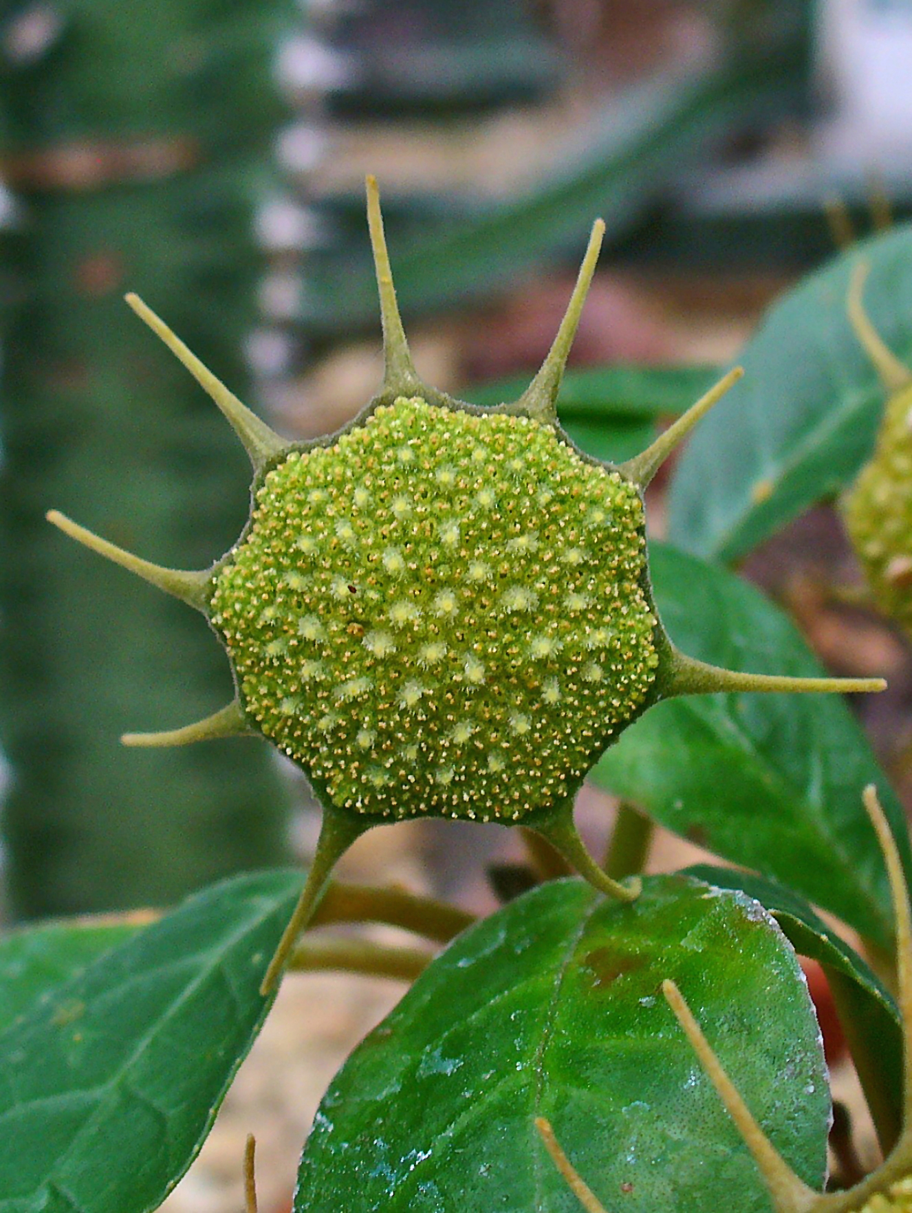 Dorstenia foetida, Moraceae, Foetid Dorstenia, inflorescence; Botanical Garden KIT, Karlsruhe, Germany.